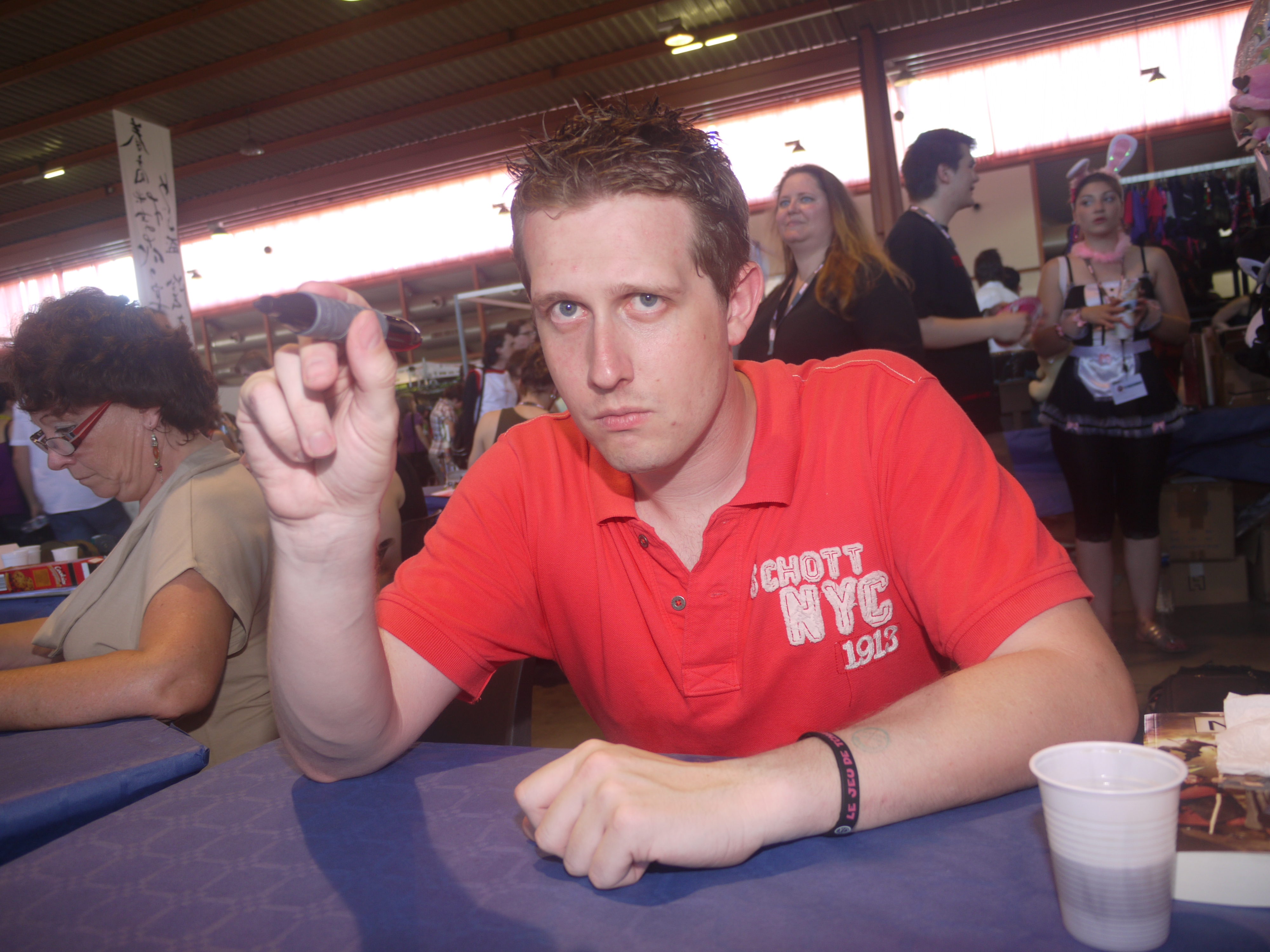 JapaNîmes convention 2010 edition of Nîmes - official site